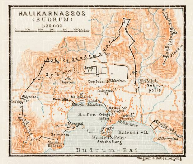 Old map of the site of ancient Halicarnassus (Bodrum) in Turkey by Wagner & Debes, Leipzig Map of the ancient site Halicarnassus (Halikarnassós) in Bodrum in Lesser Asia (Turkey) drawn on the cartographic background of 1914 at the scale of 1:35,000